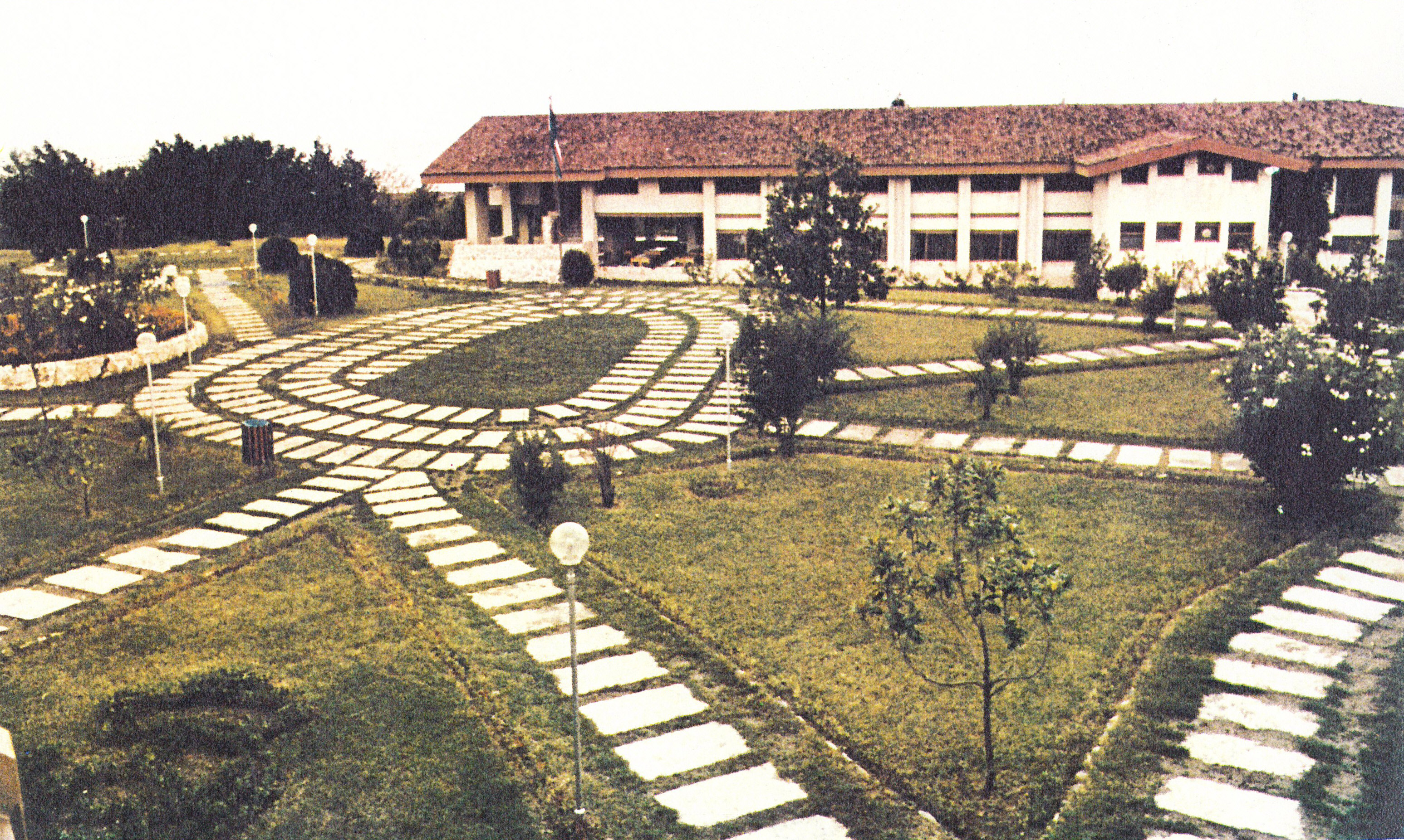 Winter camp for kids in Shahsavaar (Tonekabon), Mazandaran, Iran